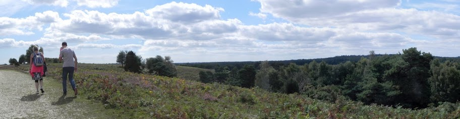 A panorama created via AutoStitch. This shows the path and view across Acres Down in the New Forest one of the few places to see a Honey Buzzard. This panoramic image was created with Autostitch (stitched images may differ from reality).